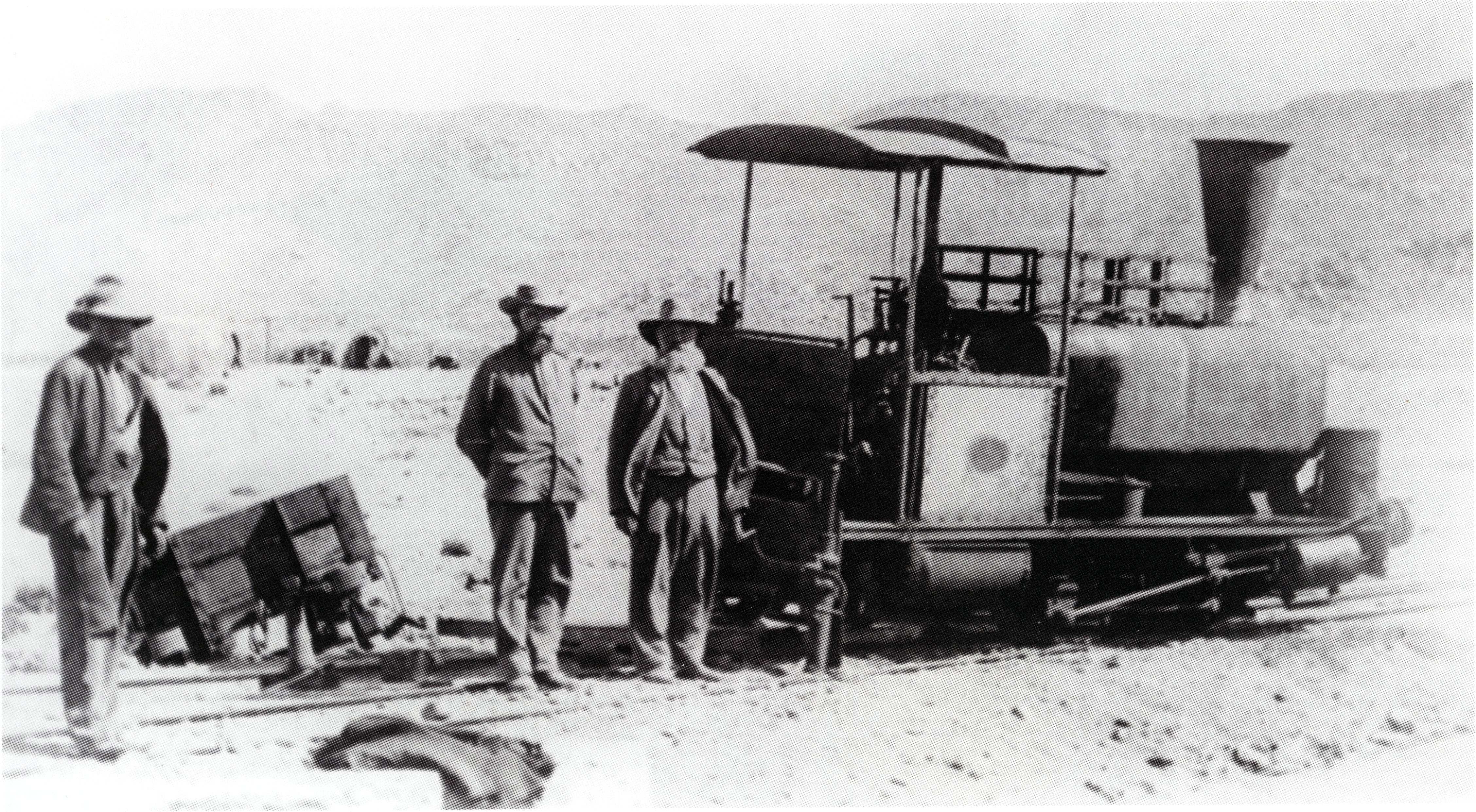 Namaqua Copper Company 0-4-2ST Pioneer, derailed outside O'okiep while being run into the town with a truckload of dynamite during the South African War